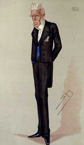 Caricature of Harry Powlett, 4th Duke of Cleveland. Caption reads "the fourth Duke".